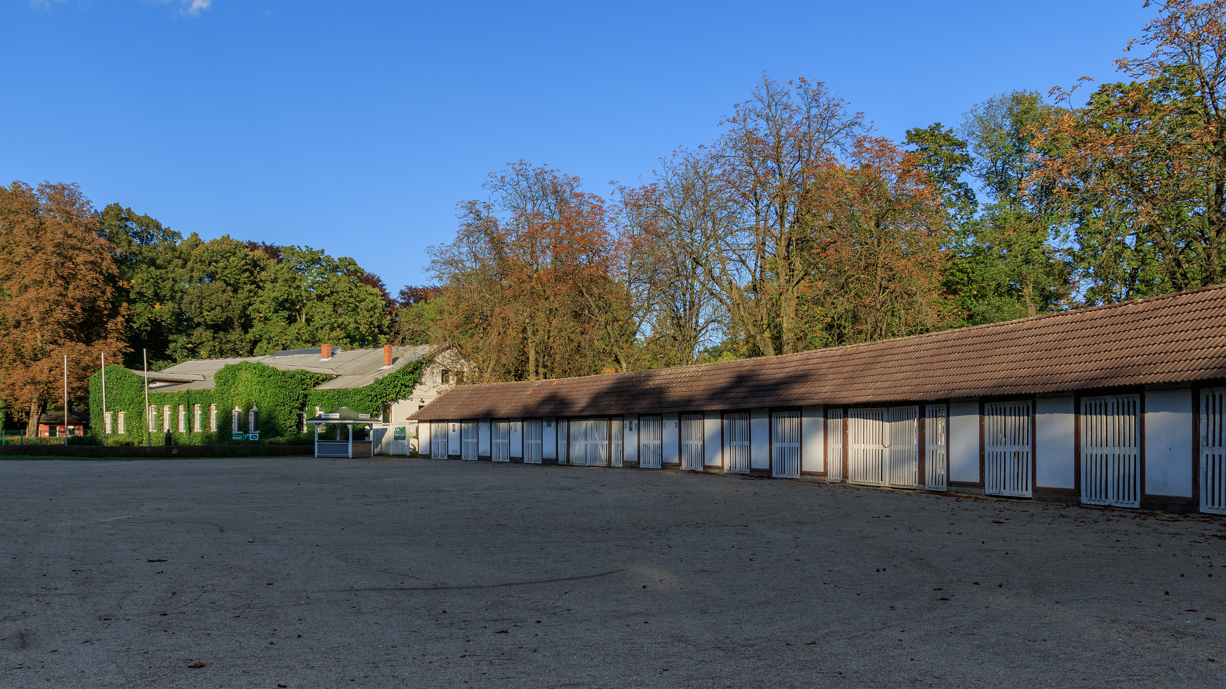 Hoppegarten Racecourse near Berlin (Germany)